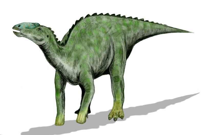 Kritosaurus navajovius, an hadrosaur from the Late Cretaceous of North America, pencil drawing. Head after skull reconstruction per the following reference: Kirkland, James I.; Hernández-Rivera, René; Gates, Terry; Paul, Gregory S.; Nesbitt, Sterling; Serrano-Brañas, Claudia Inés; and Garcia-de la Garza, Juan Pablo (2006). "Large hadrosaurine dinosaurs from the latest Campanian of Coahuila, Mexico". in Lucas, S.G.; and Sullivan, Robert M. (eds.). Late Cretaceous Vertebrates from the Western Interior. New Mexico Museum of Natural History and Science Bulletin, 35. Albuquerque, New Mexico: New Mexico Museum of Natural History and Science. pp. 299–315.